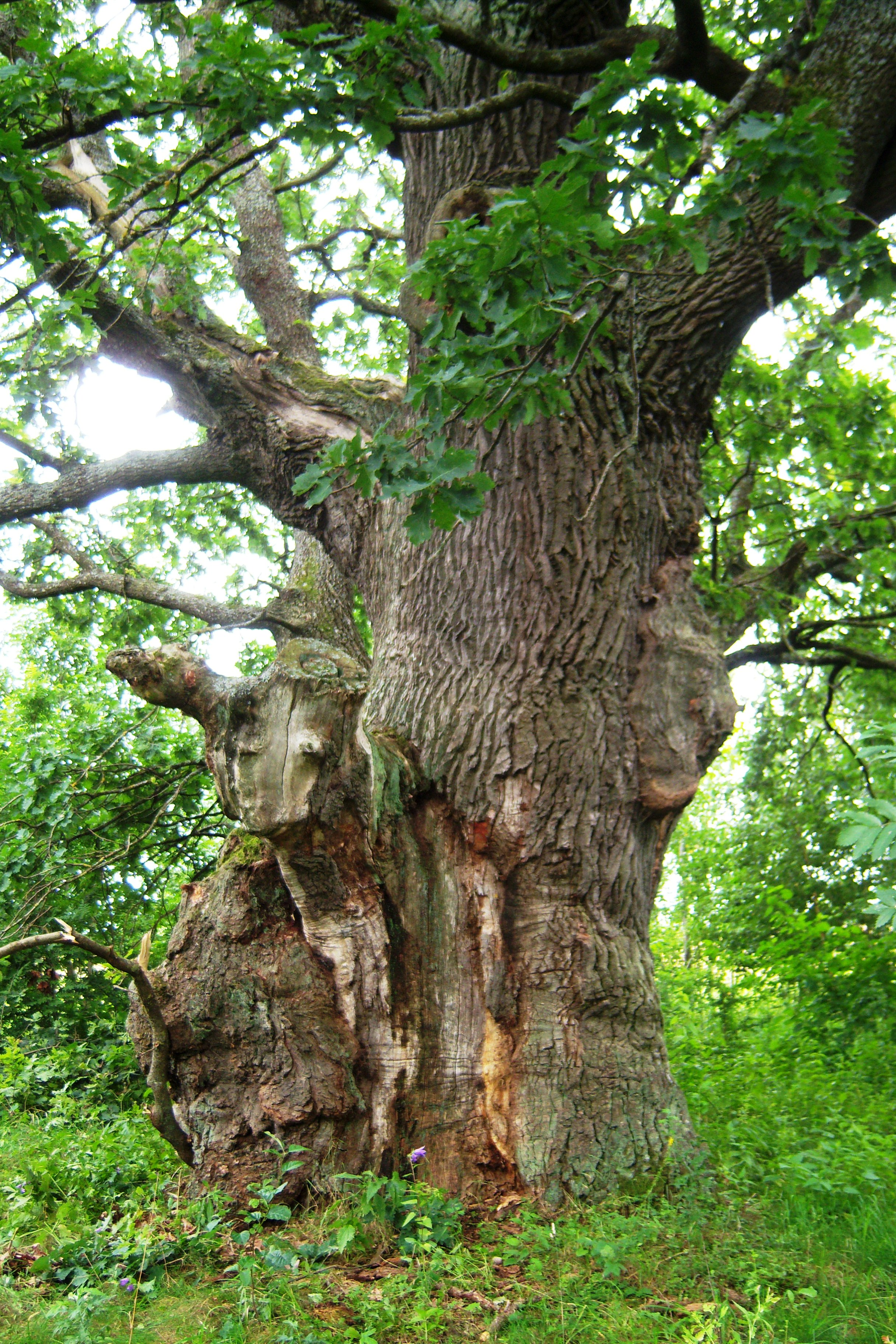 Karvelių oak by Pypliai village, Kaunas district, Lithuania